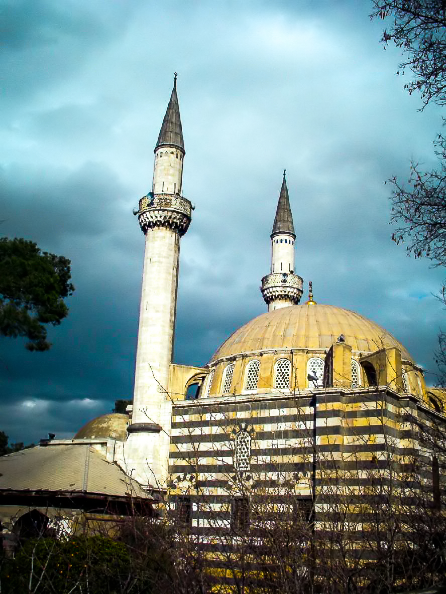 The Tekkiye Mosque is a mosque complex in Damascus, Syria, located on the banks of the Barada River. It was built on the orders of Suleiman the Magnificent and designed by the architect Mimar Sinan between 1554 and 1560.